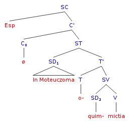 An example of nahuatl setence using Time Phrase (ST) and Determiner Phrase (SD), in normal order: Motēuczōma ōquīmmictih 'Moctezuma killed them'